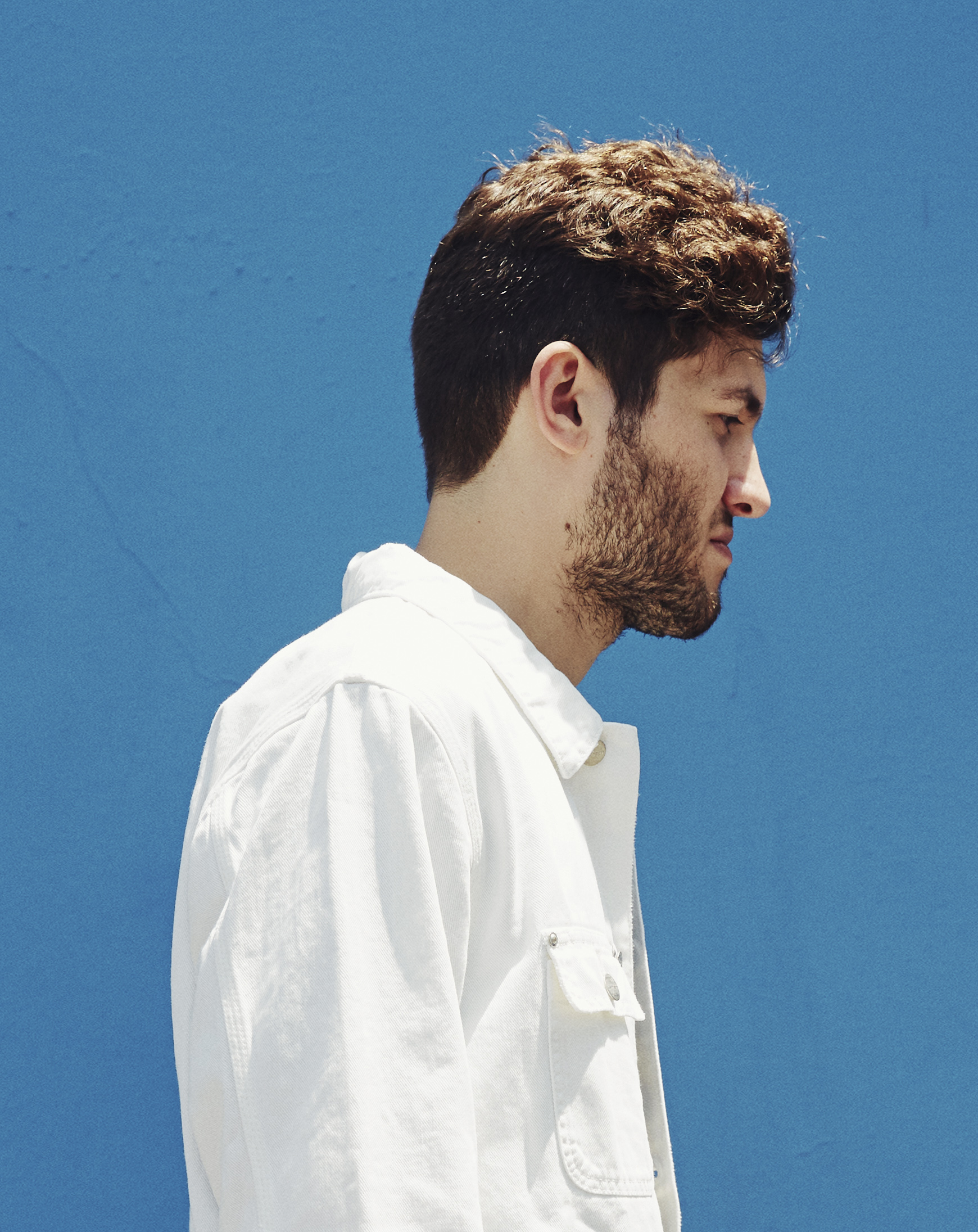 Press photo of musician and DJ Baauer in 2015